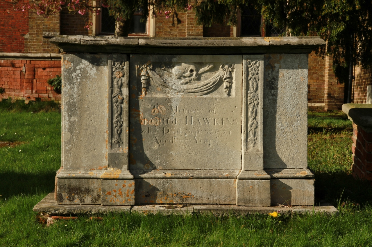 Tomb of George Hawkins (died 1761) in St Mary's parish churchyard, Staines, Middlesex, seen from the south